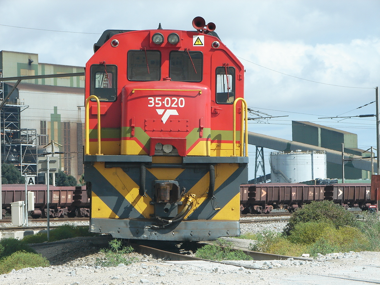 South African Class 35-000 35-020Builder's Number: GE 38180/1972-73Type: GE U15CLocation: Saldanha, Western Cape